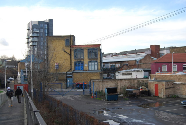 Industrial scene, Hackney Wick